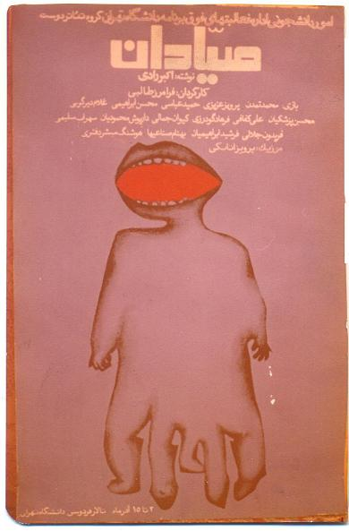 Sayadan